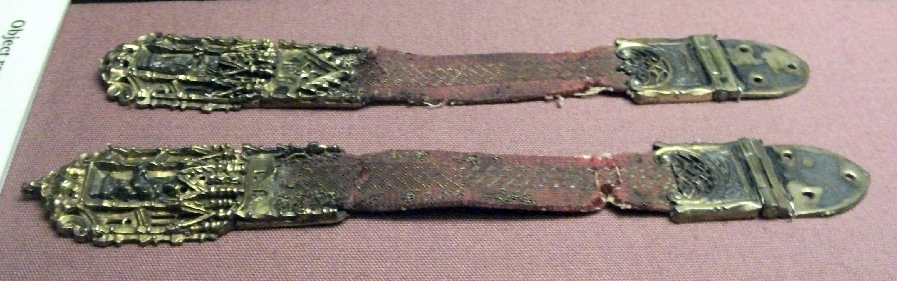 15th century book clasps, silk and silver, Waddesdon bequest, British Museum